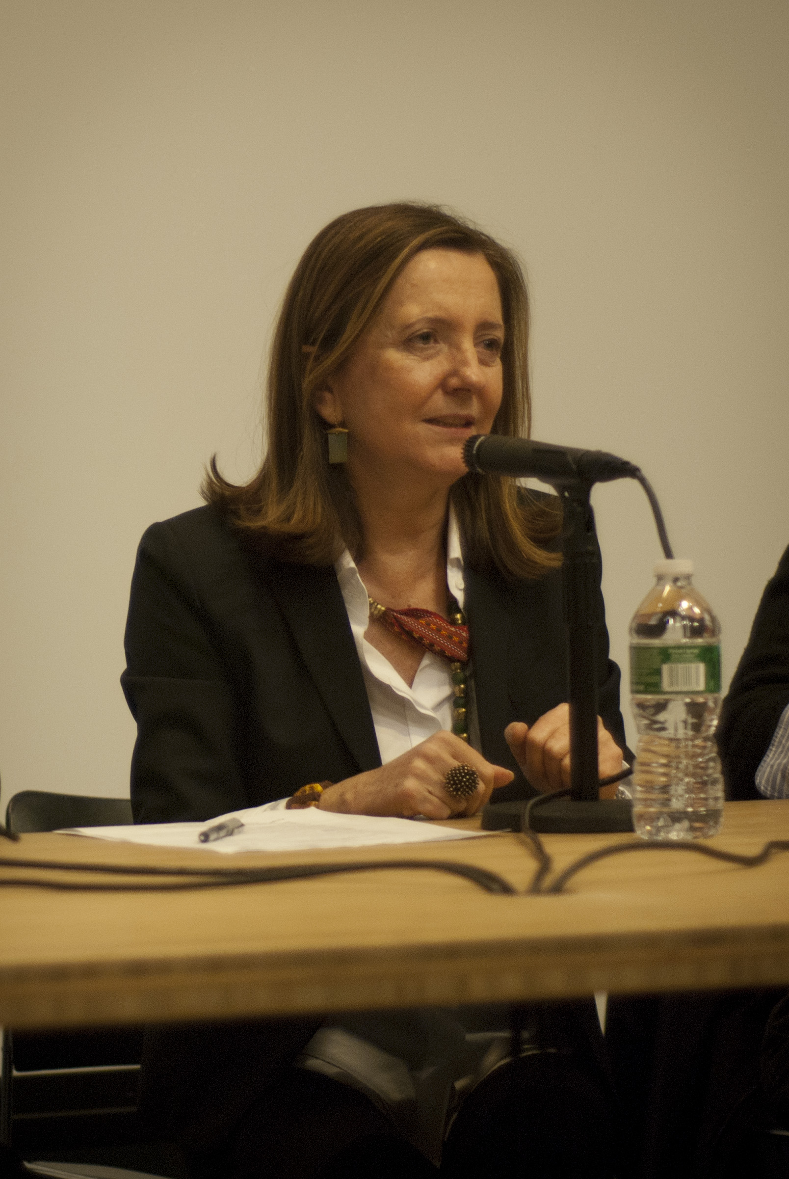 What happened to the architectural manifesto?